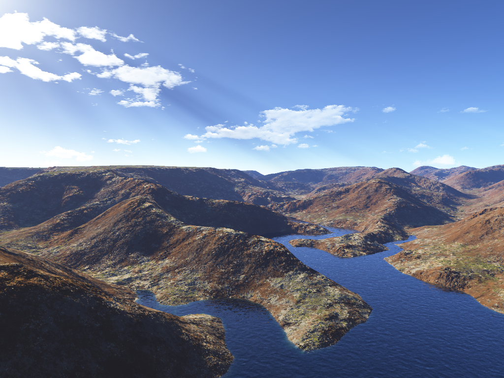 Created by myself in Terragen for Windows.